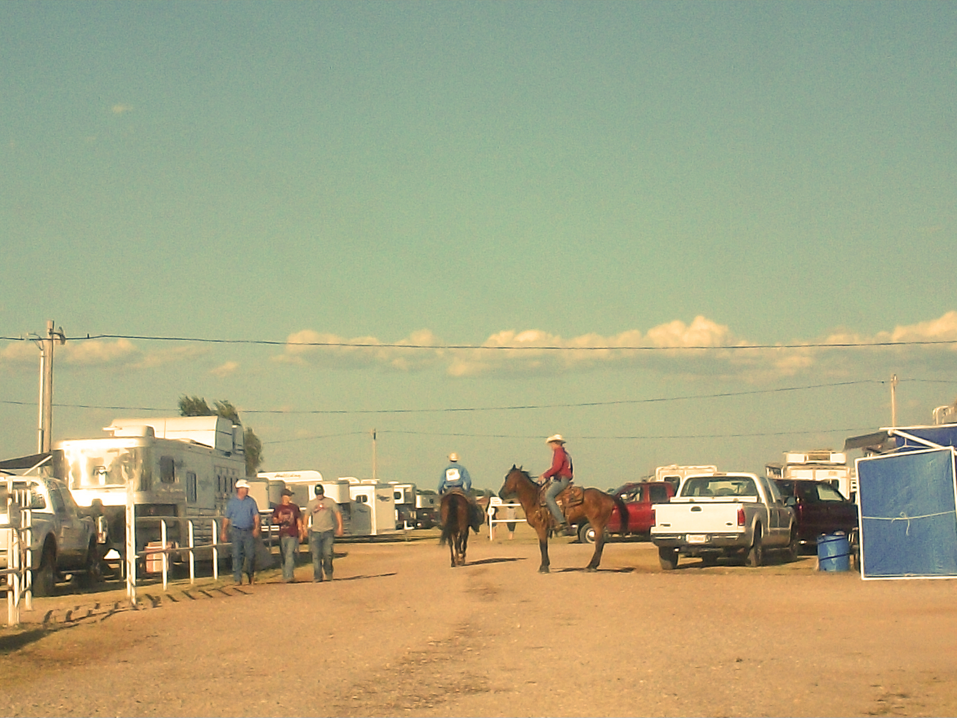 Campground of annual International Finals Youth Rodeo in Shawnee, Oklahoma